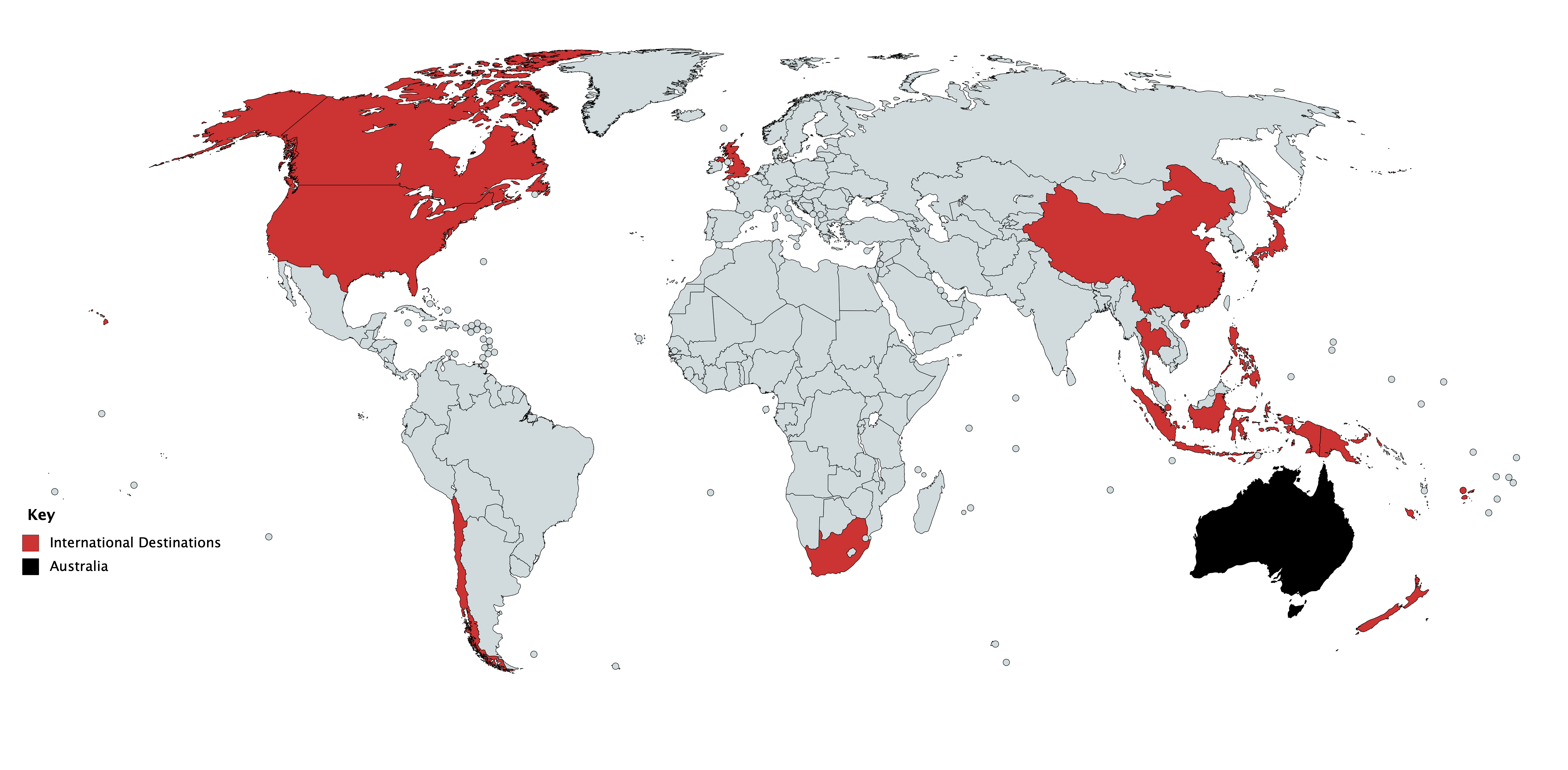 Map of Qantas International Countries of Operation (as of 2019)